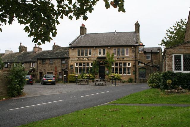 The 'Crooked Billet', Worsthorne, Lancashire Slightly away from the main square at the end of Water Street, this may well be the pub. of choice for those who have always lived in Worsthorne. Lovely floral decorations outside. Two cask ales...